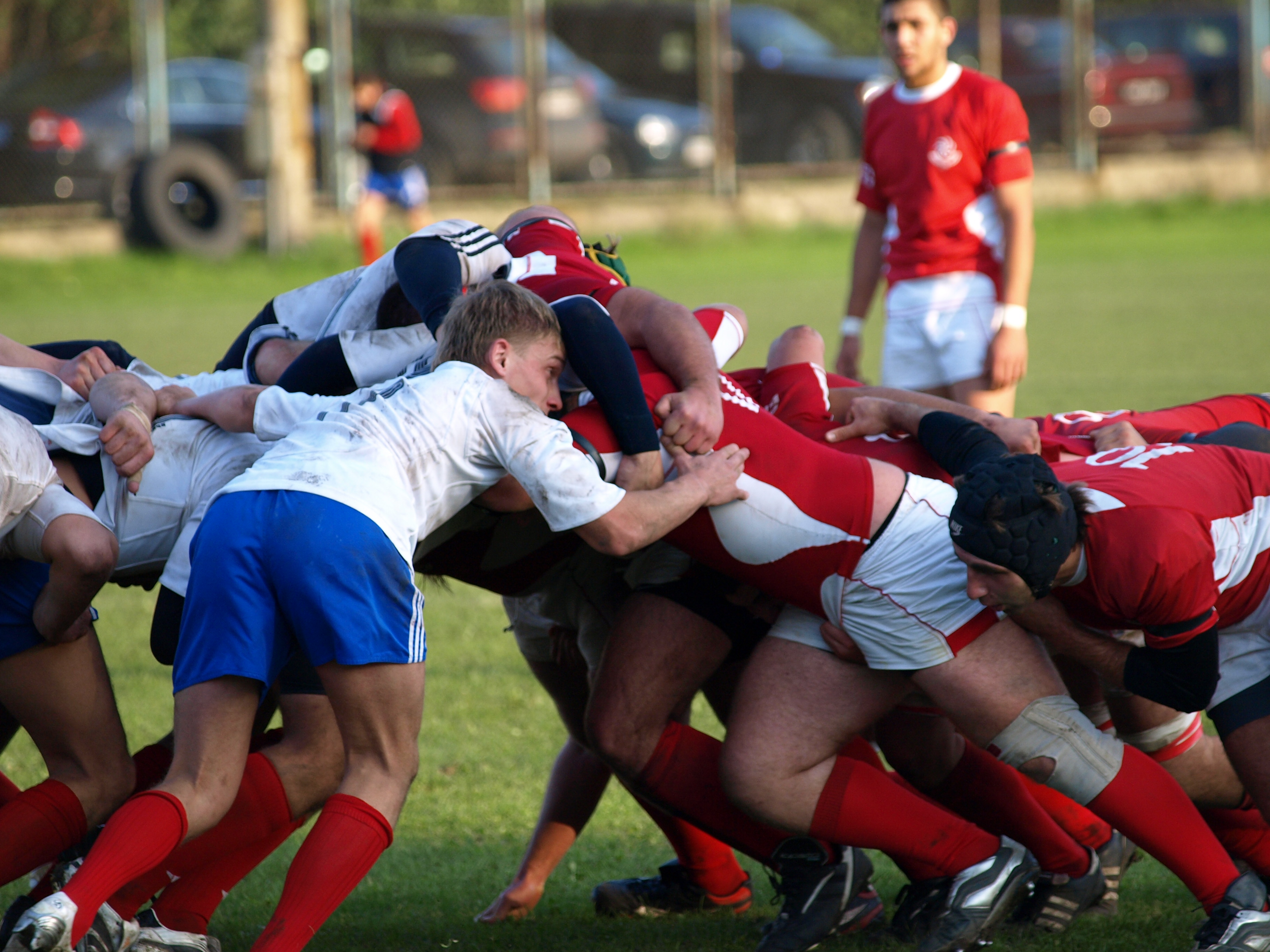 Russia vs Georgia 0:37, rugby union european championships U19, semi-final, 24/9/2008 Sopot, Poland